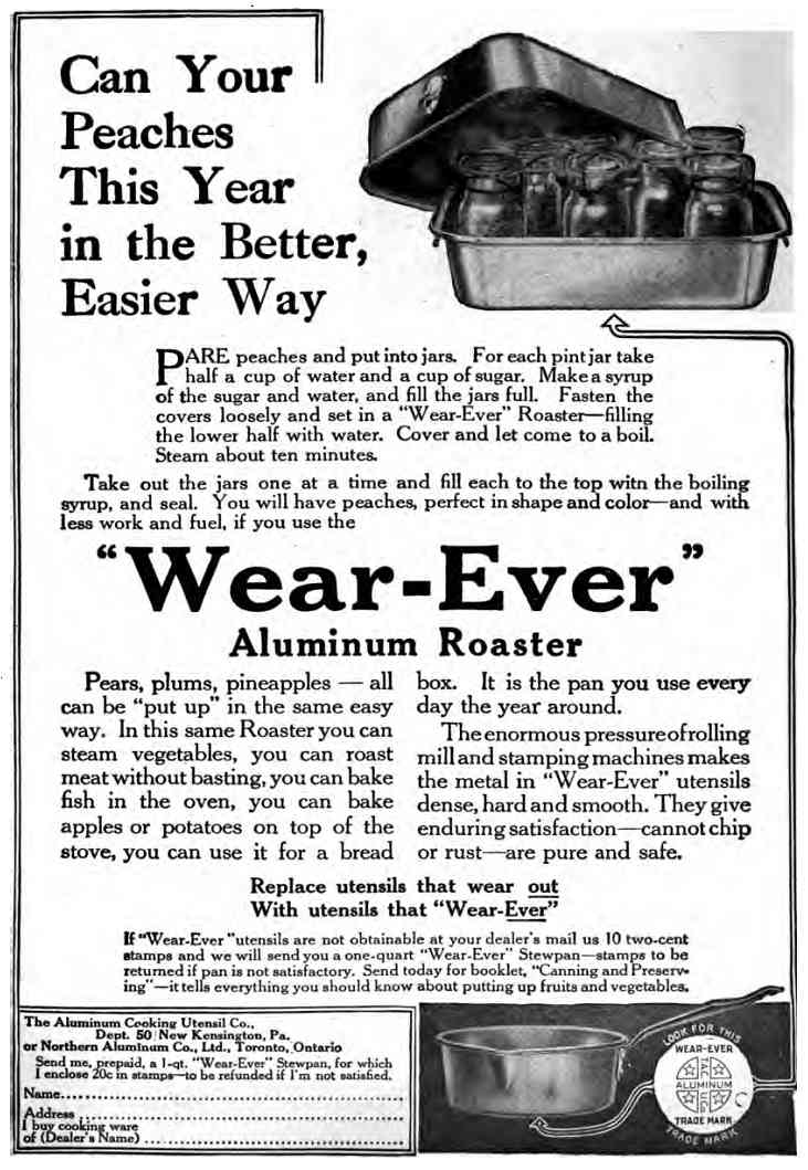 A black-and-white magazine advertisement for a stewpan.